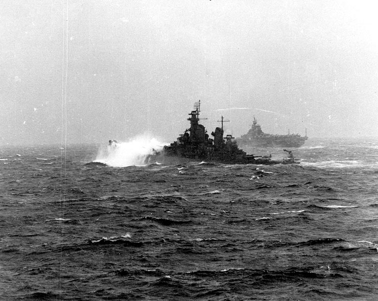 The U.S. Navy battleship USS New Jersey (BB-62) In a stiff storm in the western Pacific, 8 November 1944. The aircraft carrier USS Hancock (CV-19) is in the background.